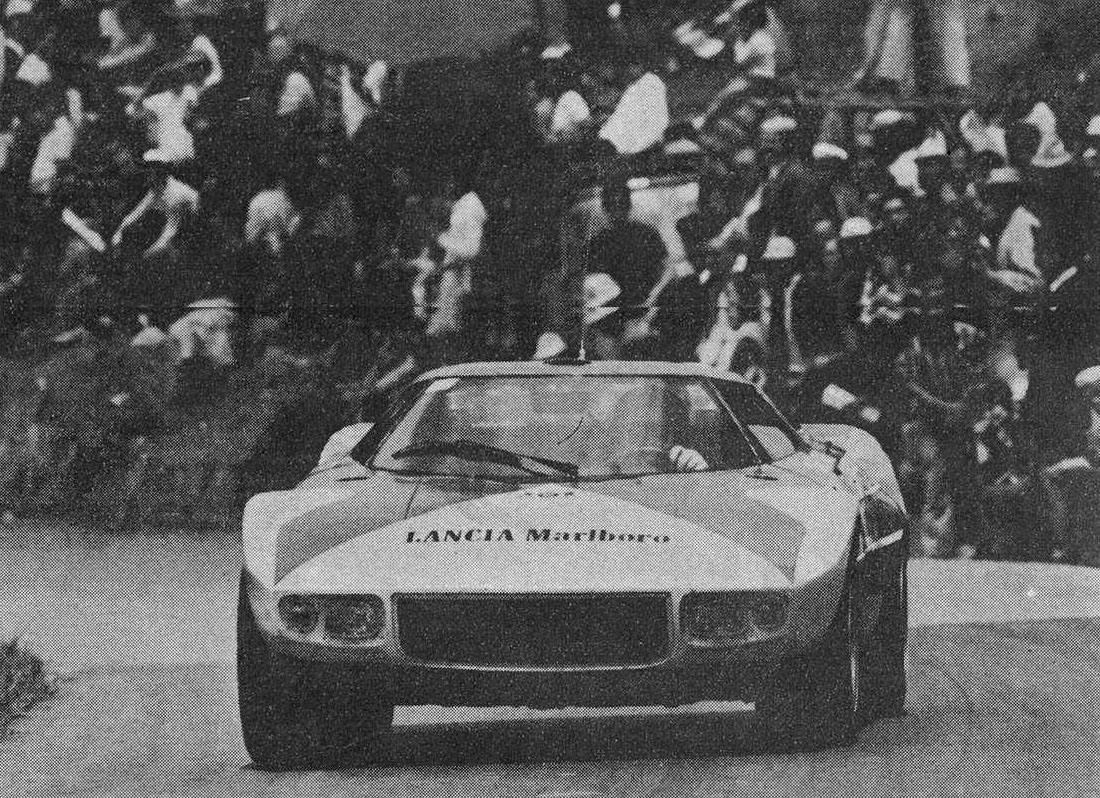 Province of Palermo (Sicily, Italy), "Piccolo Madonie" road circuit, May 13, 1973. French motor racing driver Jean-Claude Andruet on a Lancia Stratos HF 2.4 V6 (Prototype), sponsored Marlboro, at the 1973 Targa Florio.